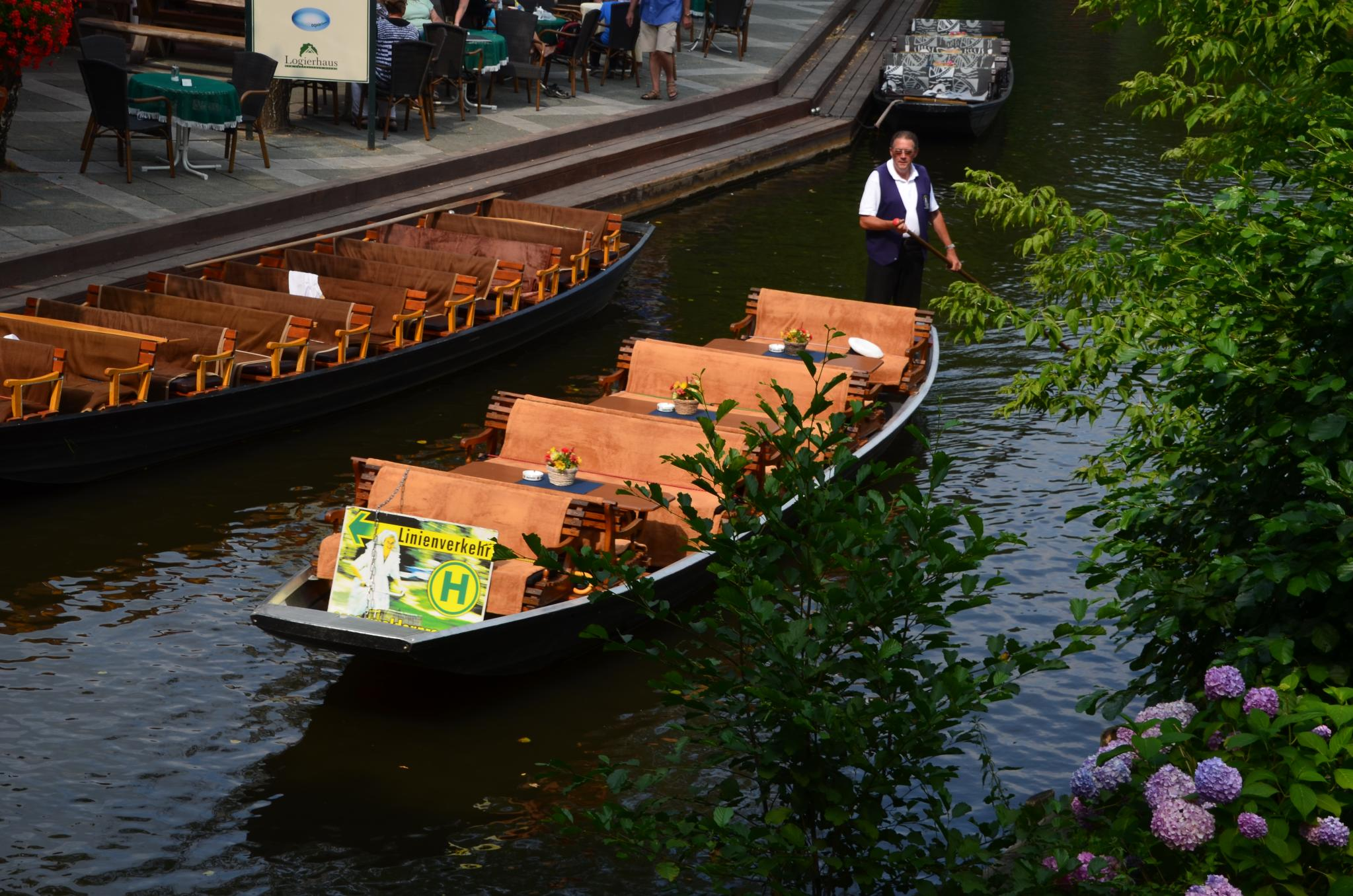 Spreewald Impressionen